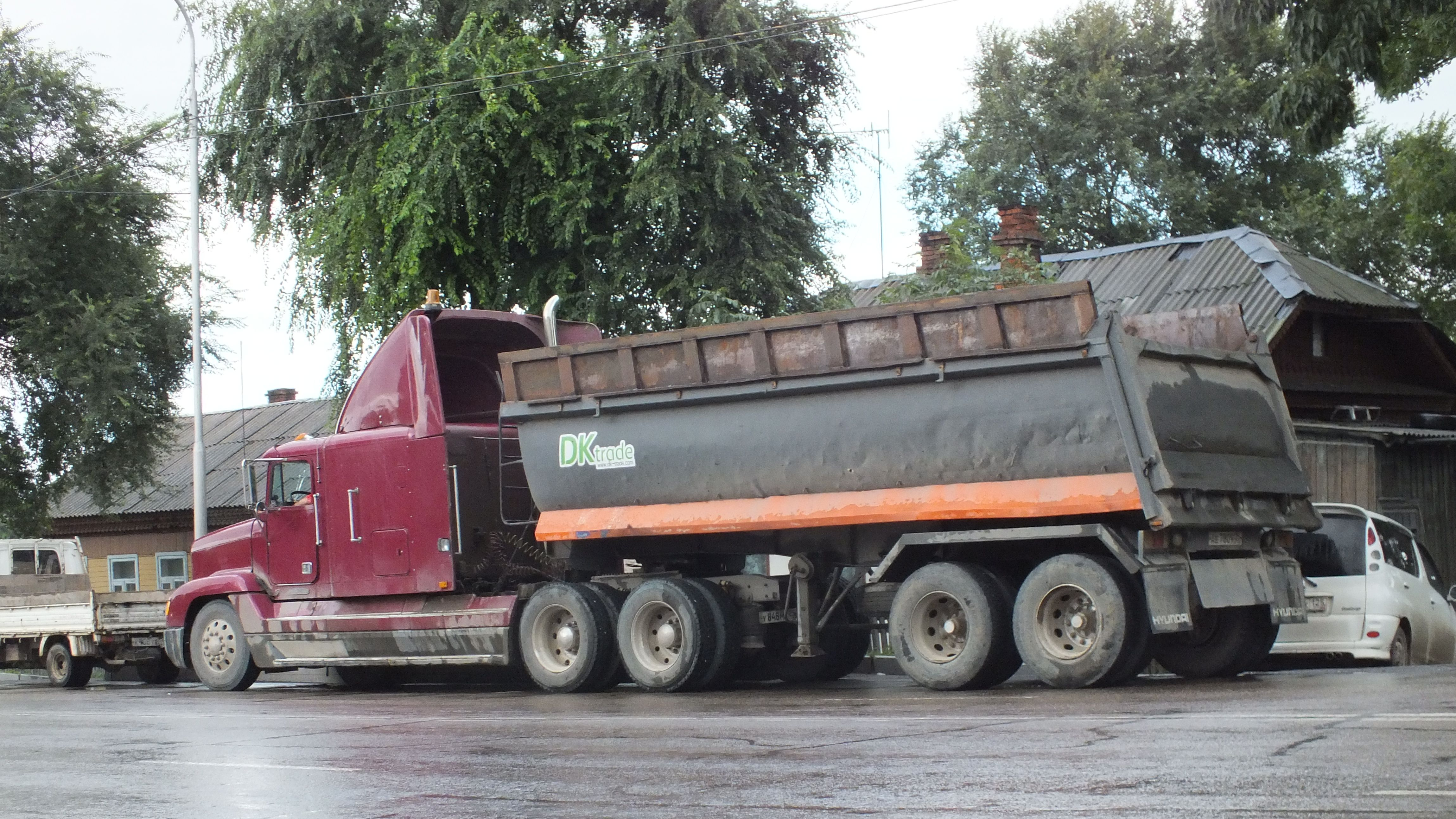 Trailers